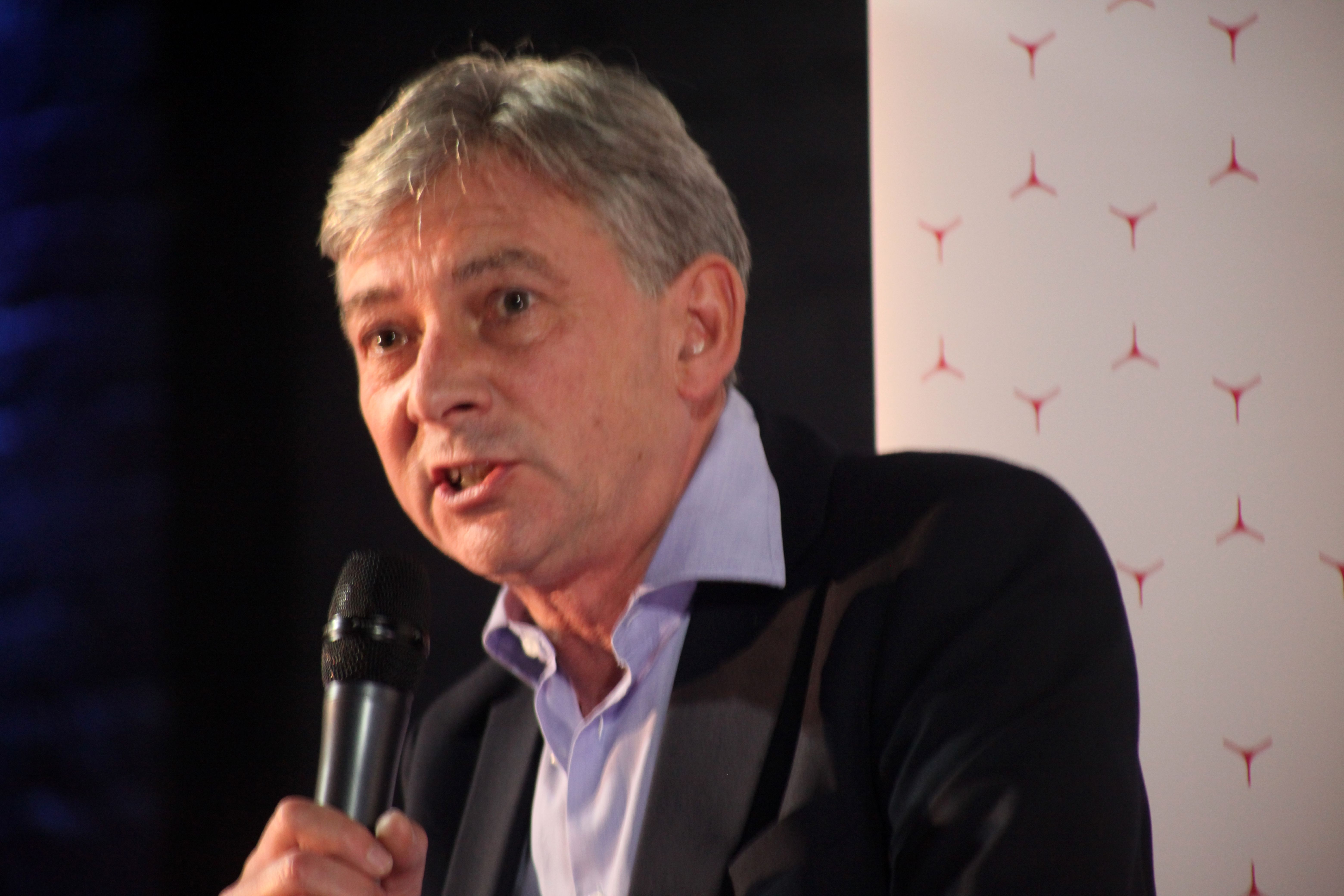 The World Transformed 2018 in Liverpool